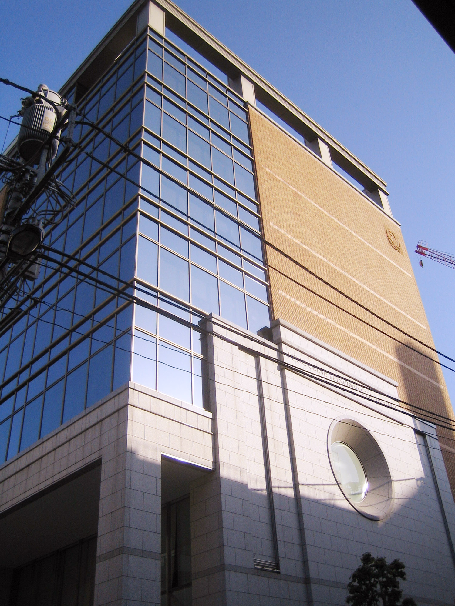 Kadokawa Shoten Publishing Co.,Ltd. (Kadokawa Shoten), a publisher in Choyoda, Tokyo, Japan